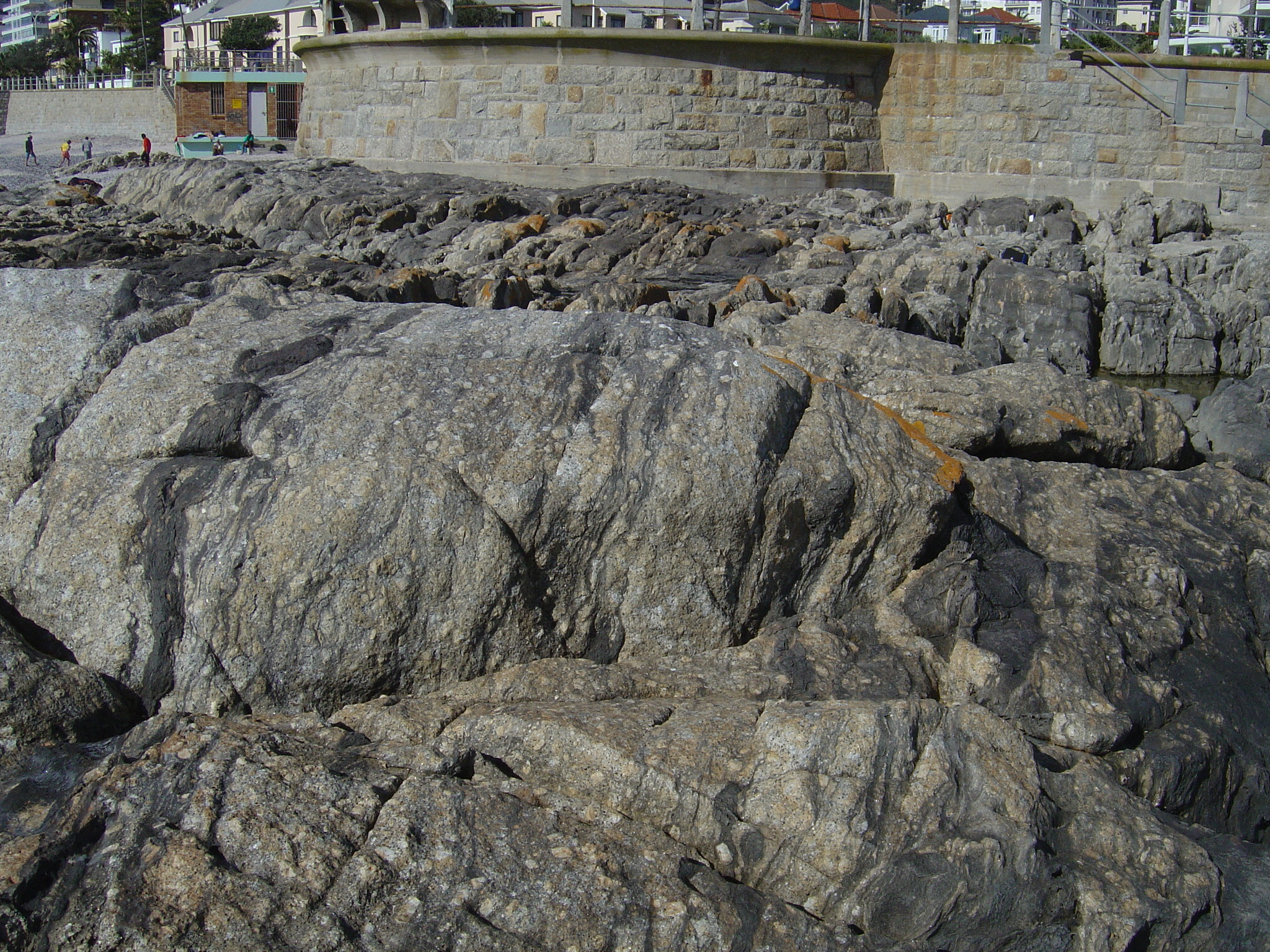 The contact zone at Sea Point showing mixing of the intrusive granite of the Peninsula pluton with the Tygerberg slates, Cape Town.